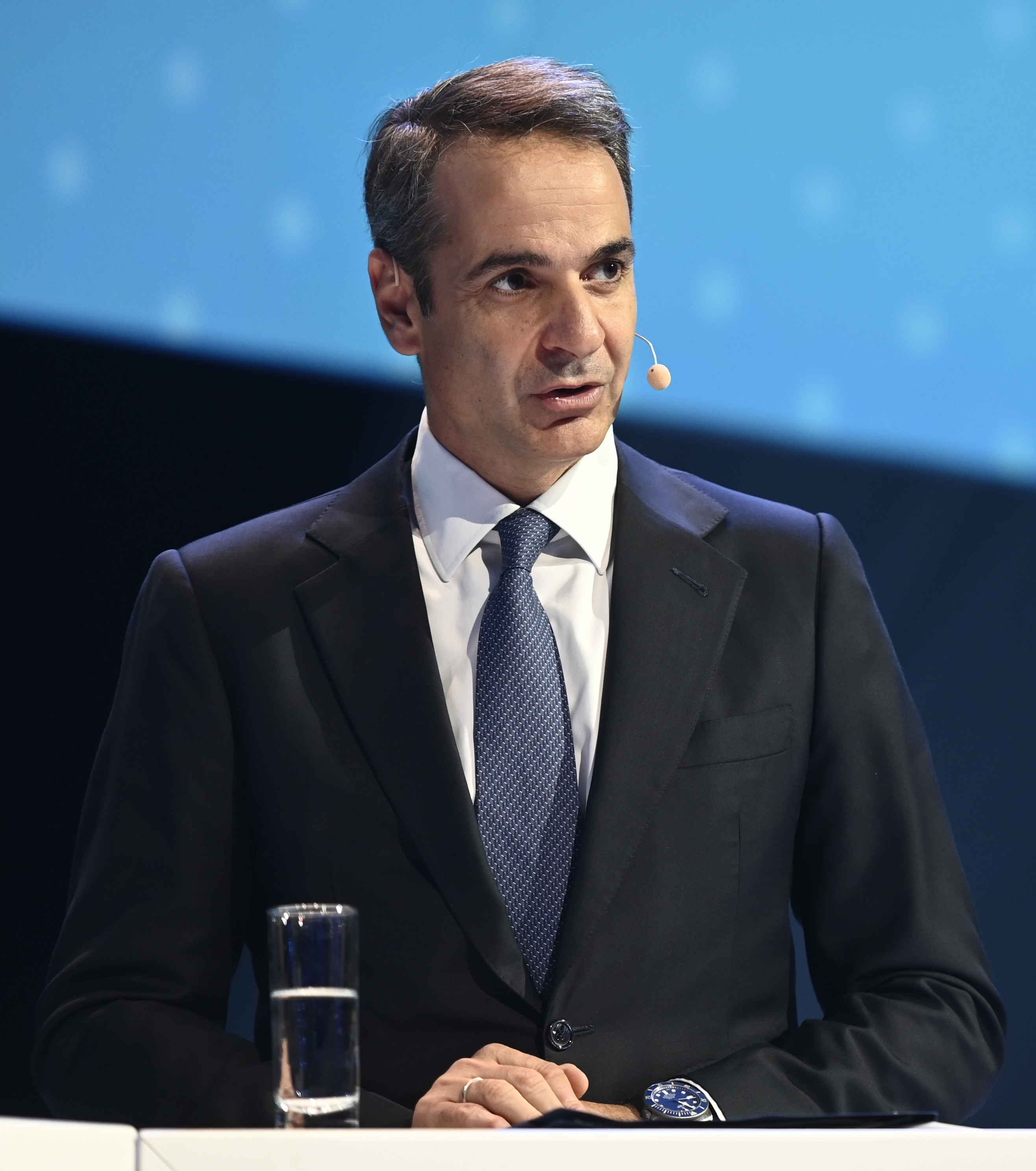 EPP Zagreb Congress in Croatia, 20-21 November 2019